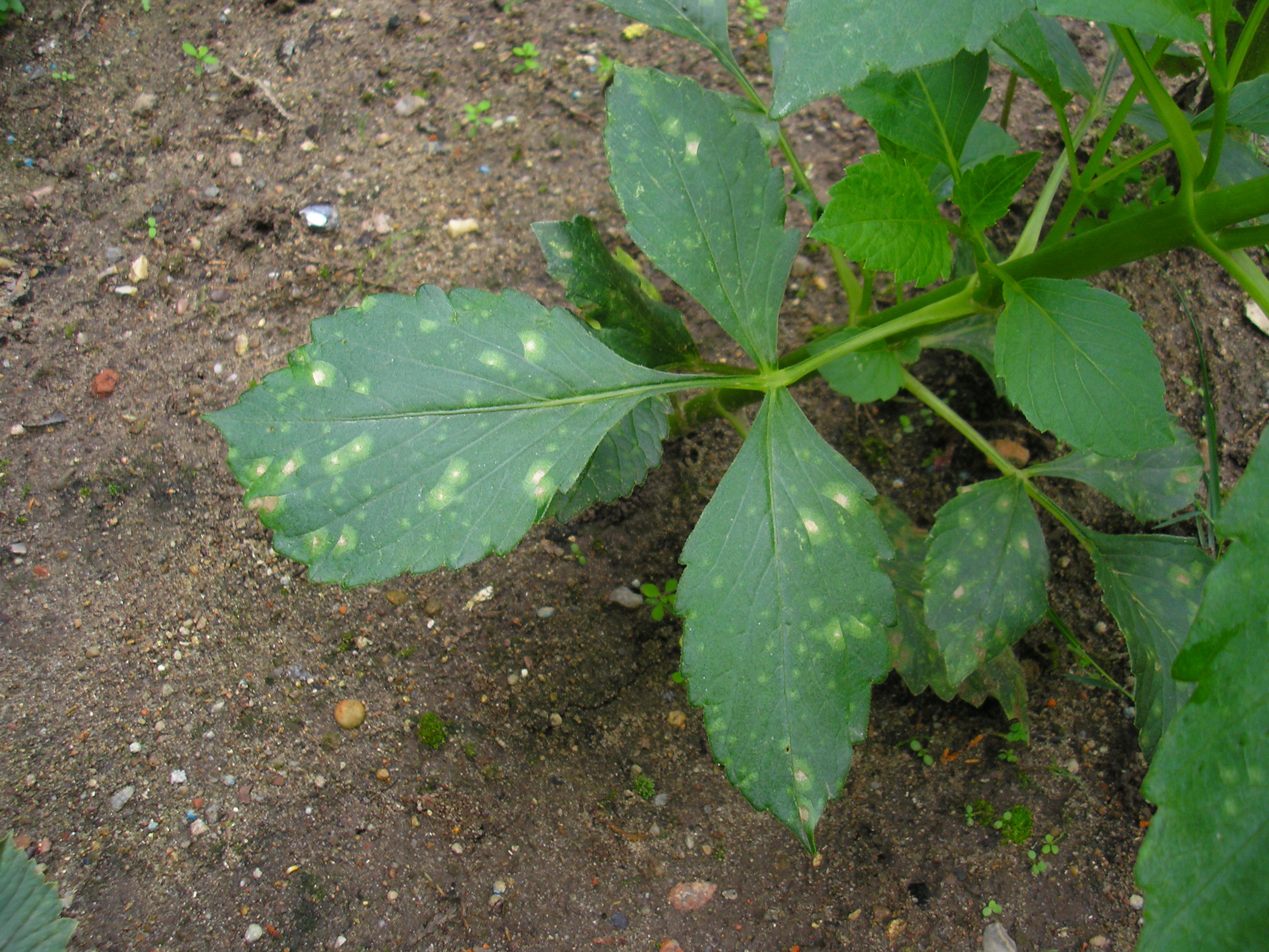 Dahlia infected by Entyloma dahliae